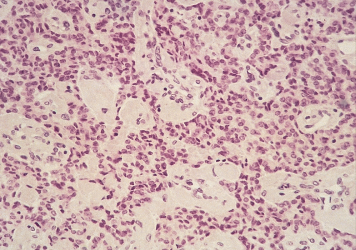 PANCREAS: PANCREATIC GASTRINOMA Pancreatic malignant gastrinoma showing a trabecular pattern. Note the presence of hyaline and fibrous tissue between epithelial cell cords.